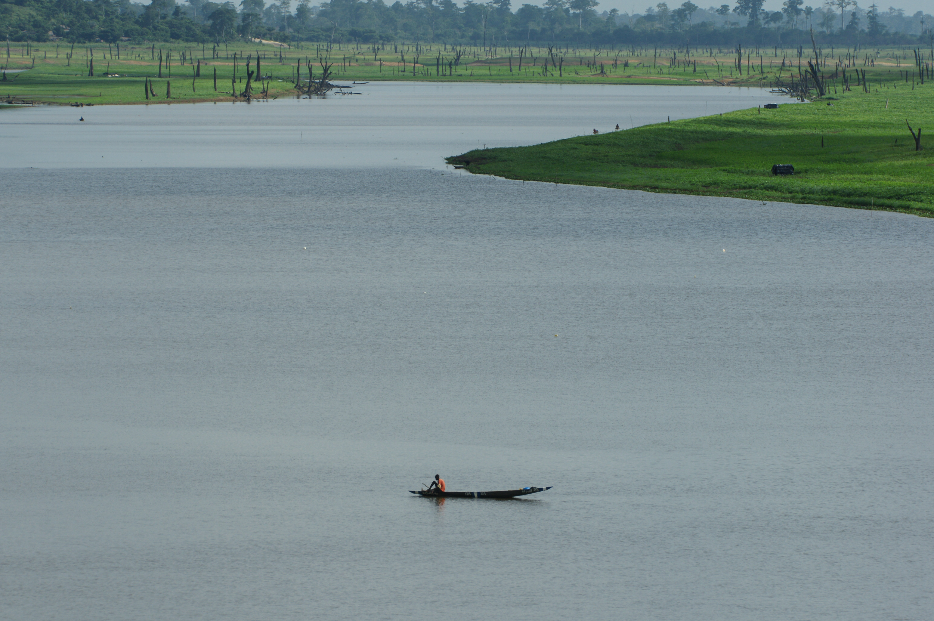 Lone fisherman on Sassandra river, Ivory Coast This is an image of "African people at work" from Ivory Coast